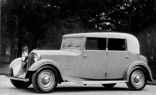 Steyr 24 "430" 1933